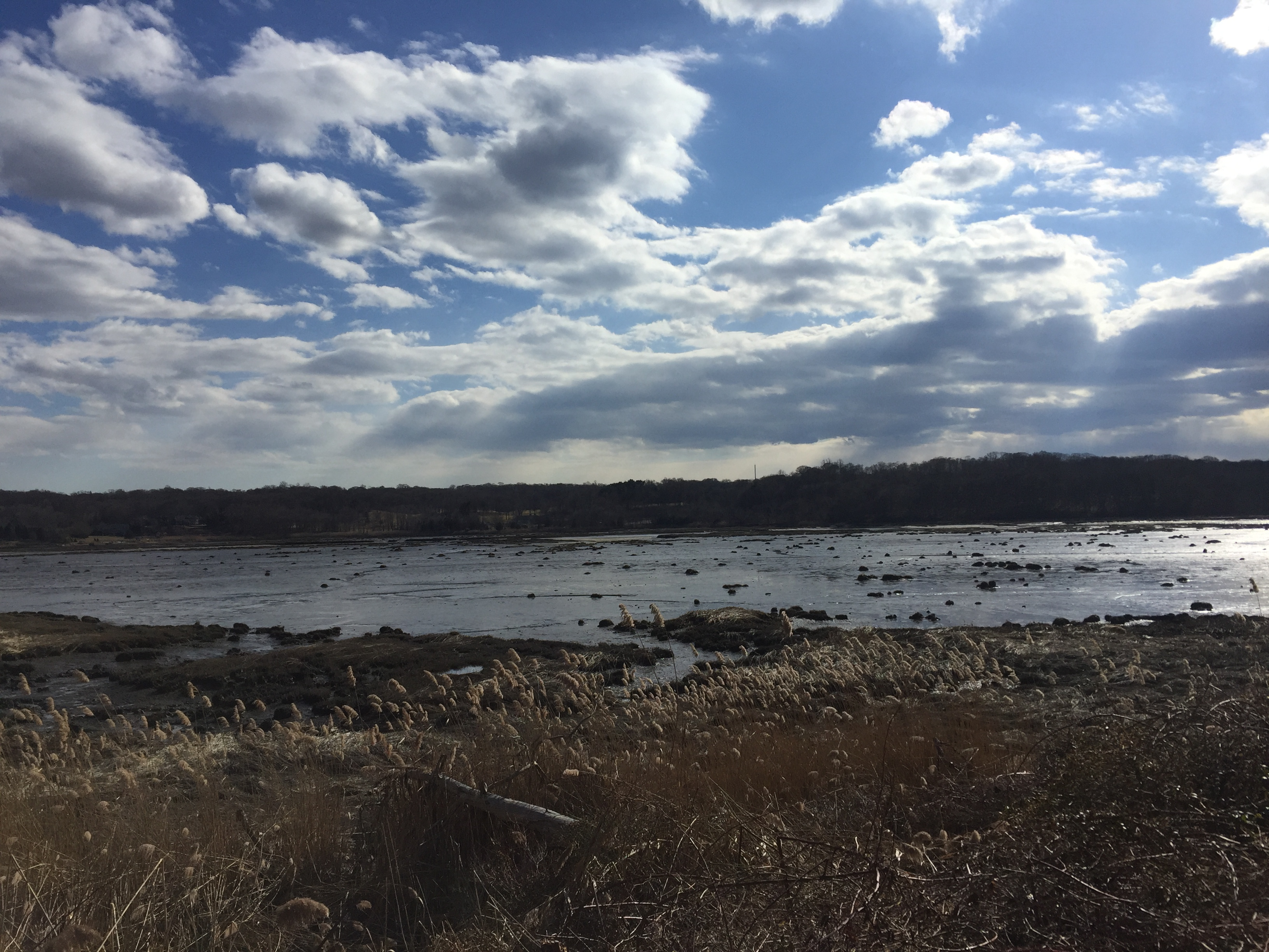 location: River Rd facing the Nissequogue River at low tide date: march 18 2019